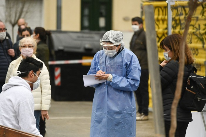 DetectAR plan, to detect Covid-19 virus. Buenos Aires City